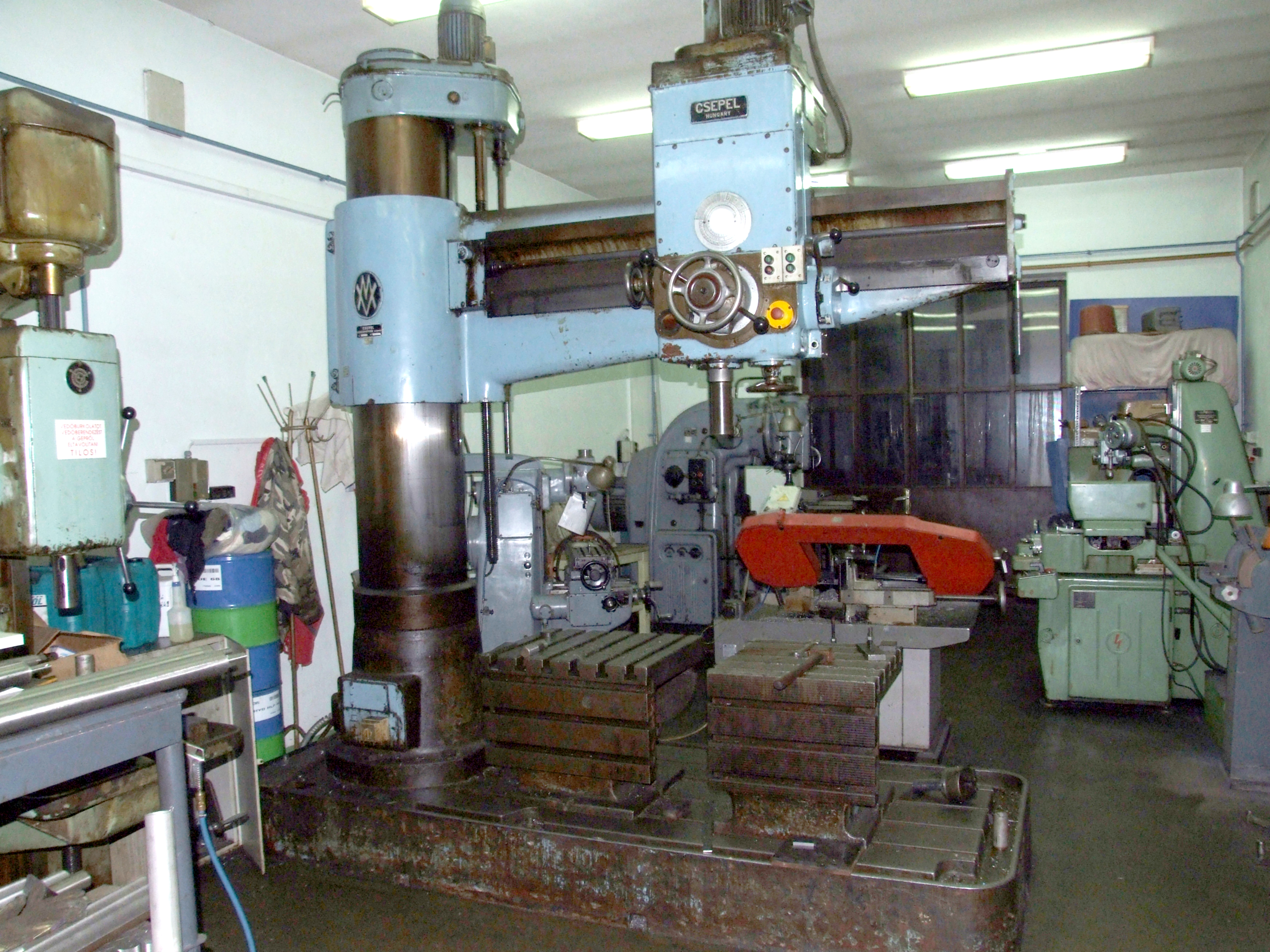 Radial arm drill